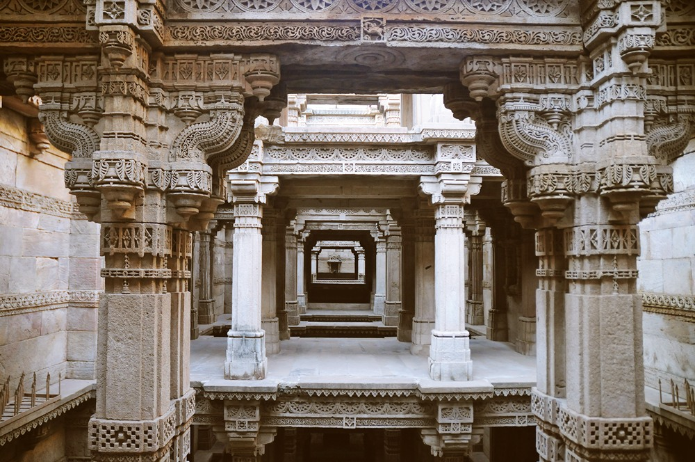 Adalaj is a small village off the highway from Udaipur to Ahmedabad. You can easily miss it while driving towards the capital of Gujarat. It will be a pity if you miss it, For Adalaj village has a hidden treasure in it. The treasure is a step well, locally called Vav. An elaborately carved, five stories deep well with rest places for the weary at all floors, this is certainly among the most beautiful specimen of local architecture. The legend behind this well is no less interesting. It is said that the Vaghela King Veer Sinh was defeated and killed by Sultan Beghara in the fifteenth Century. He then asked for the hand of Veer Sinh's widow in marriage. The crafty widow, Queen Rudabai, was obviously not interested. She asked for time to complete a step well she wanted to build in her departed husband's memory before she married the Sultan. After waiting for 20 years for the queen to complete the well, an eager Sultan reiterated his demand. The Queen jumped into the well and committed Jauhar rather than marry the invader.